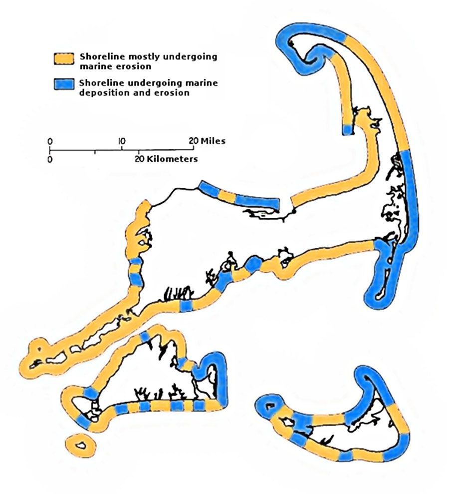 Map of Cape Cod showing those shores undergoing erosion (cliffed sections) in yellow, and shores characterized by marine deposition (barriers) in blue. Although the barriers are sites of marine deposition, in the long run, the ocean shore will retreat as the barrier keeps pace with the erosion of cliffed shorelines and as they adjust to sea-level rise.